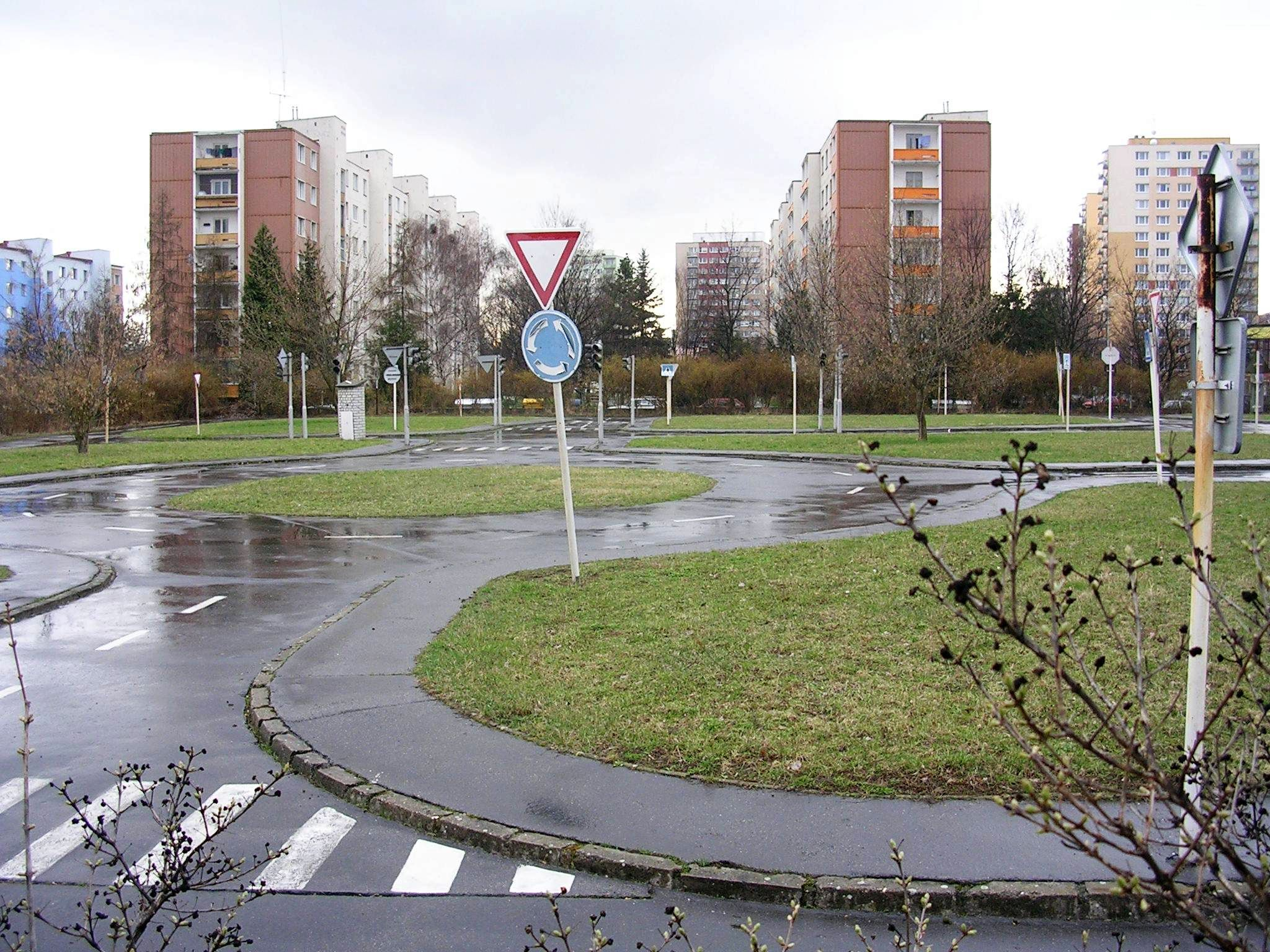 Traffic playground for education of children. The Czech Republic, Praha, Zahradní Město.